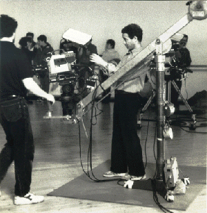 Kadour Naimi director of a television show in Rome, entitled Cittadini del Mondo (Citizens of the World) (1995).